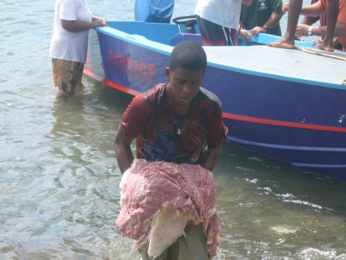 Photo taken March 24 2007, Bequia, St Vincent and the Grenadines, one day after islanders caught a 35' male Humpback whale. Boy carrying whale meat.